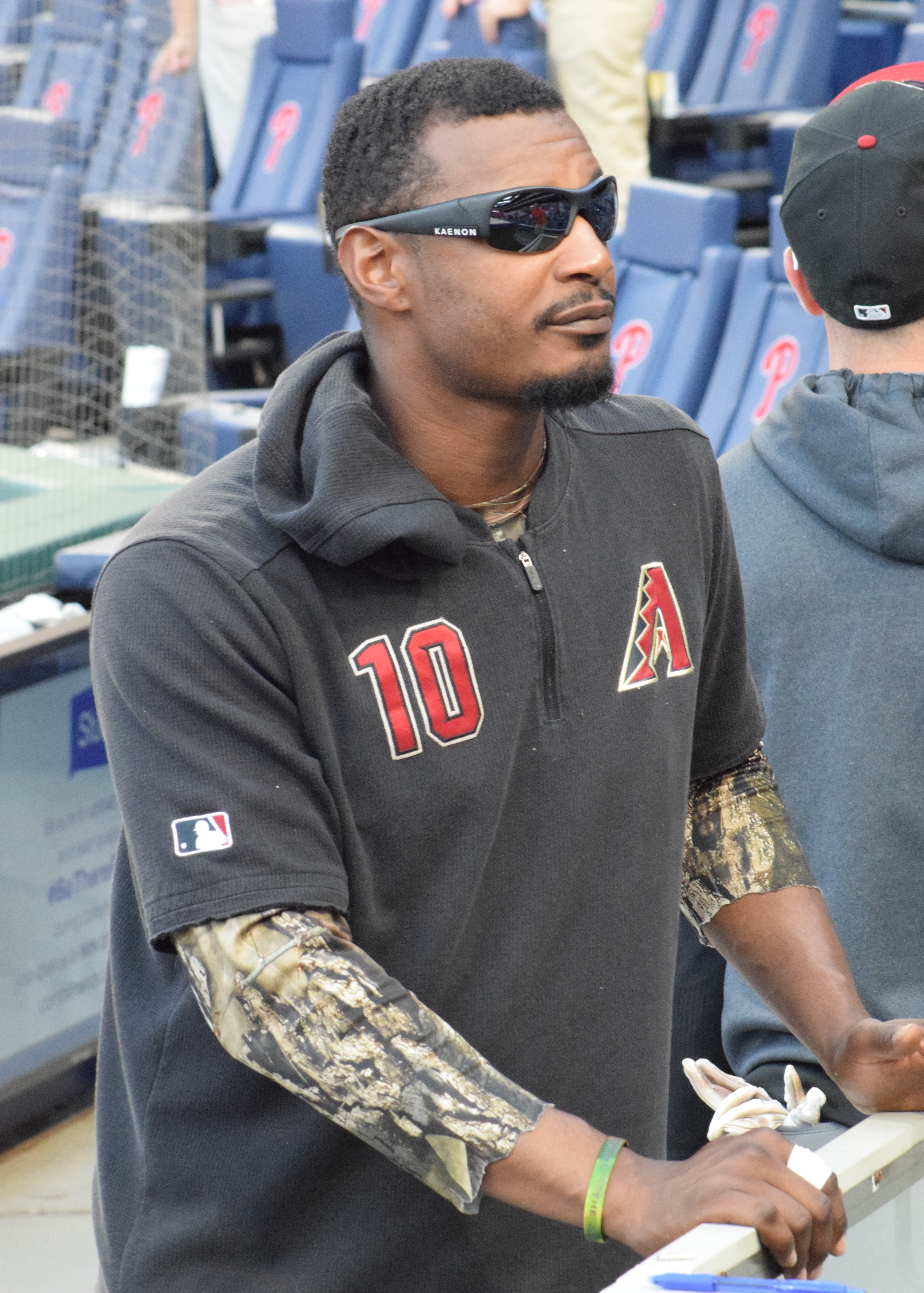 Adam Jones of the Arizona Diamondbacks before a 2019 game at Citizens Bank Park in Philadelphia